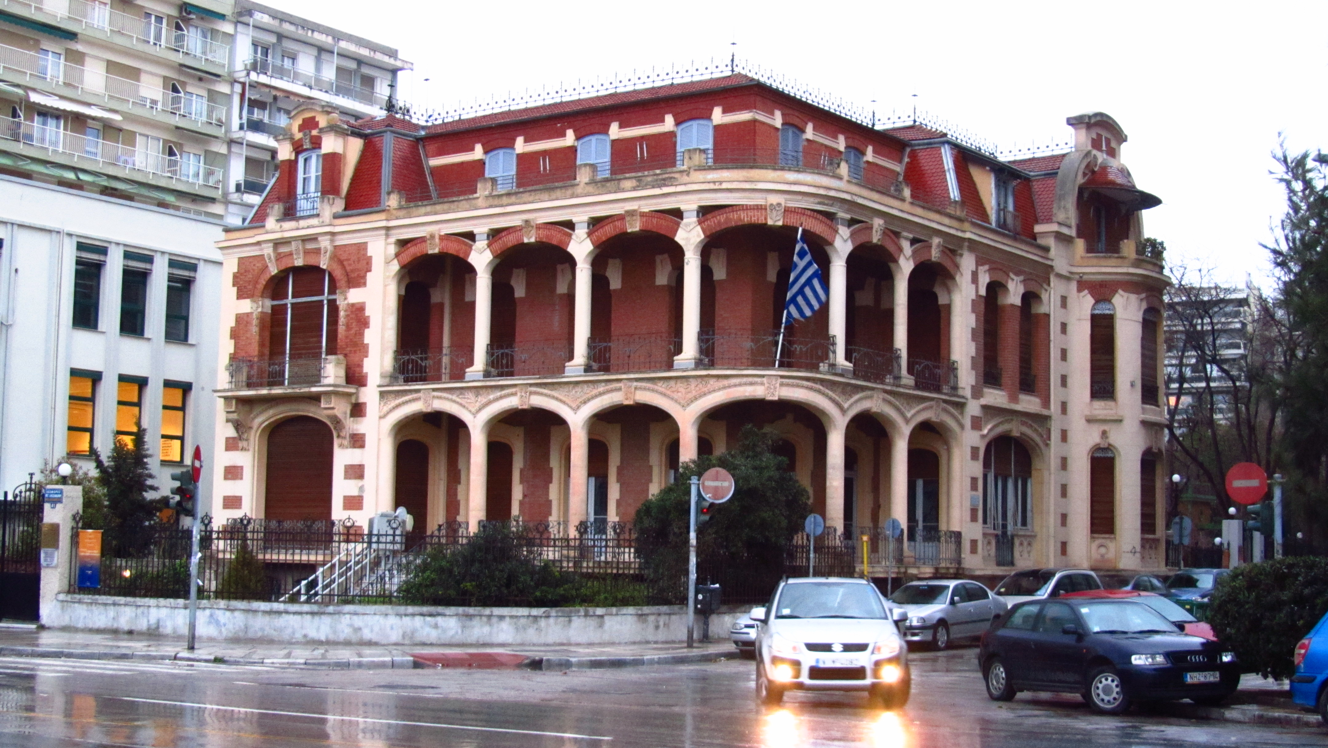 THESSALONIKI-Folklore and Ethnological Museum of Macedonia Thrace